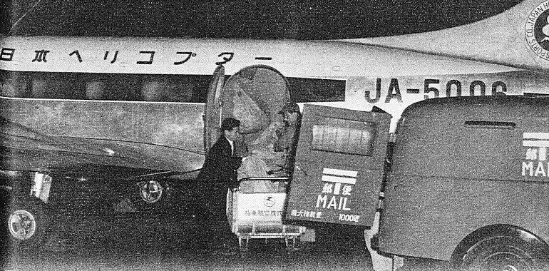 Japanese airmail being loaded on aircraft in 1950s